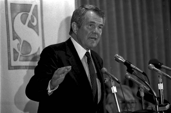 Accompanying note "Christian broadcaster and potential presidential candidate, Pat Robertson gestures as he spoke before the Florida Economics Club Wednesday. Robertson called the loading up of dept on children and grandchildren "immoral and sinful" during a speech that showed he was as at home with economics as he is with religion."